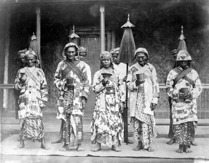 Priest from the East-Javanese Tengger area with bronze cups with signs of the zodiac for holy water [1]